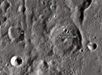 Argelander lunar crater as seen from Earth with satellite craters labeled